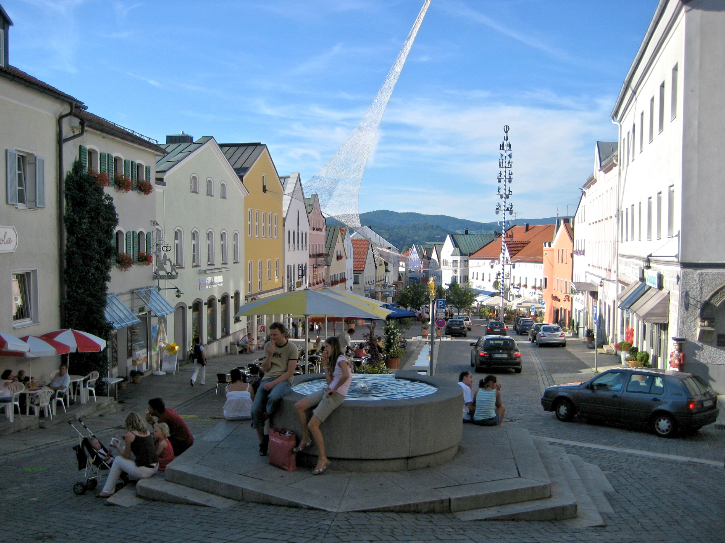 Marktplatz of Waldkirchen